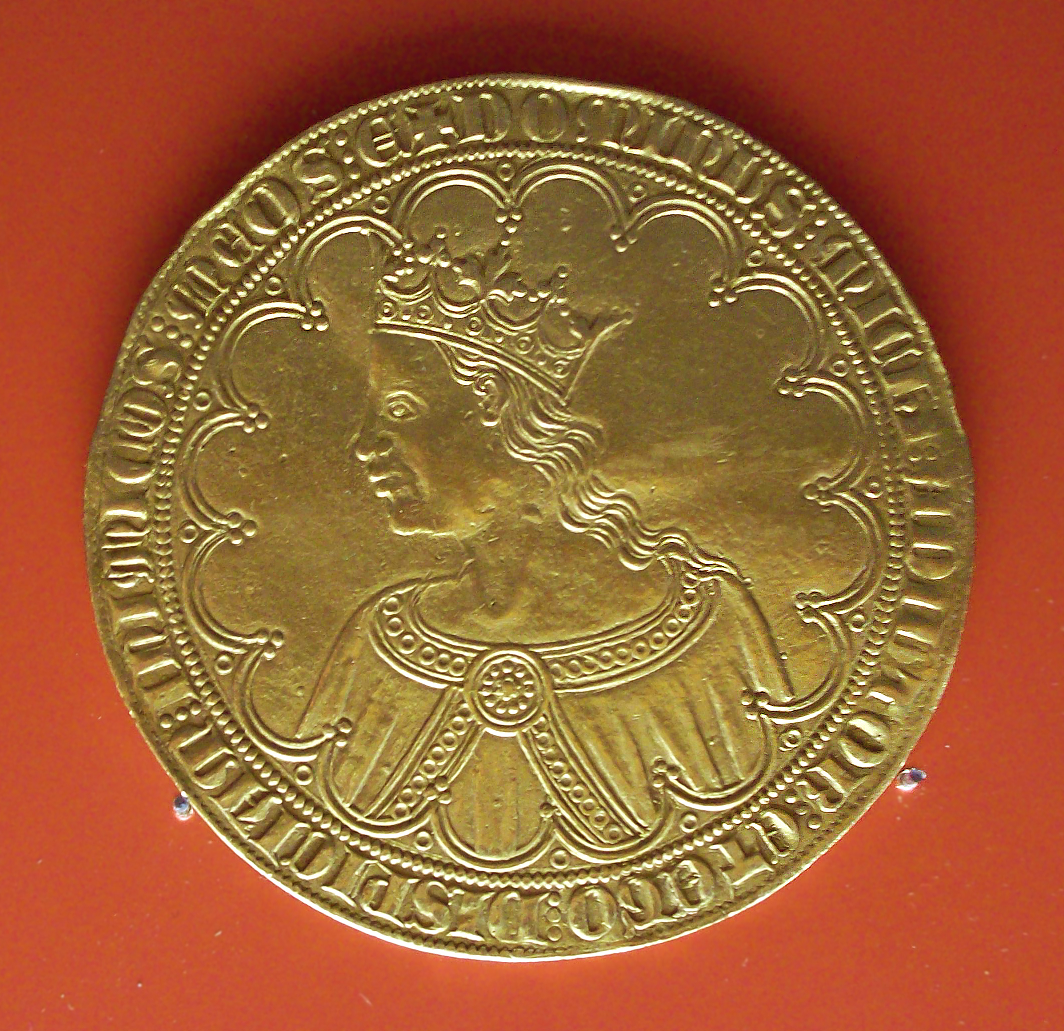 Obverse of a gold Gran Dobla, Dobla de a Diez ("of Ten") or Dupla Magna of Peter I of Castile (1334–1369), also known as "dobla de cabeza" ("head dobla").